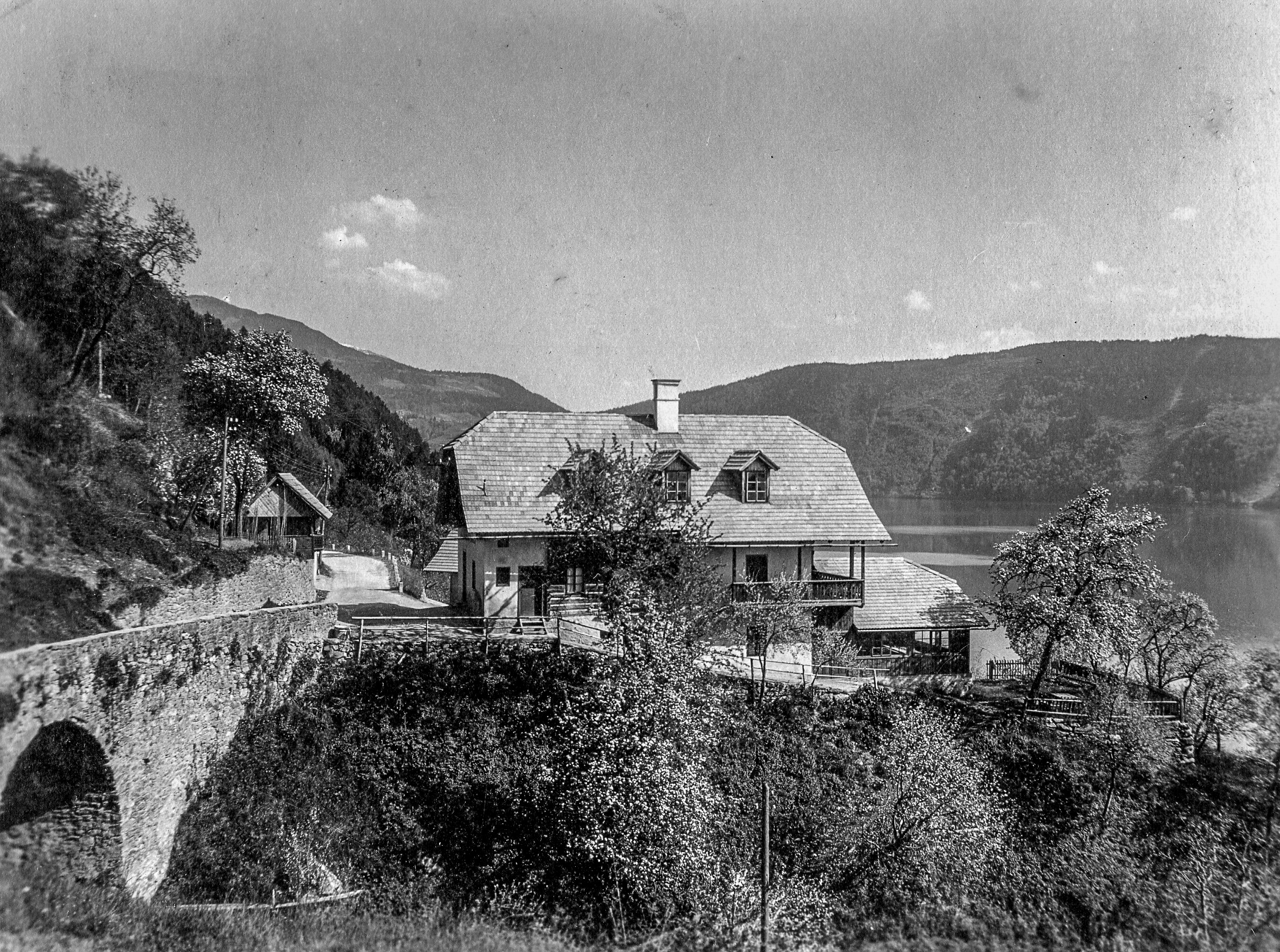 Farm and inn "Sonnenhof" around 1950 in Dellach in the community Millstatt (Millstätter See), district Spittal an der Drau in Carinthia / Austria / European Union.